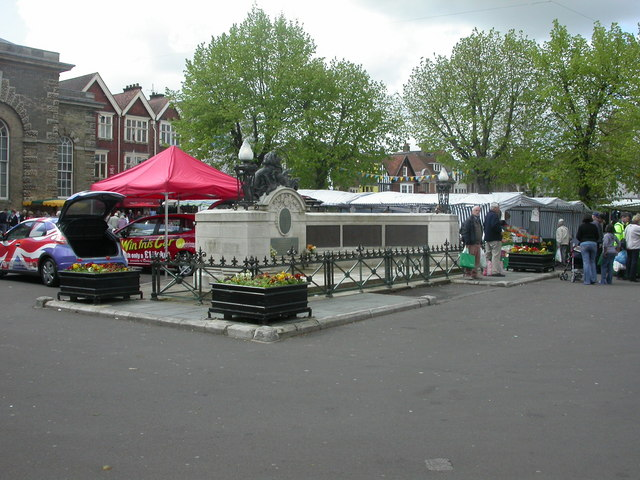 Salisbury, war memorial In Market Place; recording names of the dead in both World Wars.